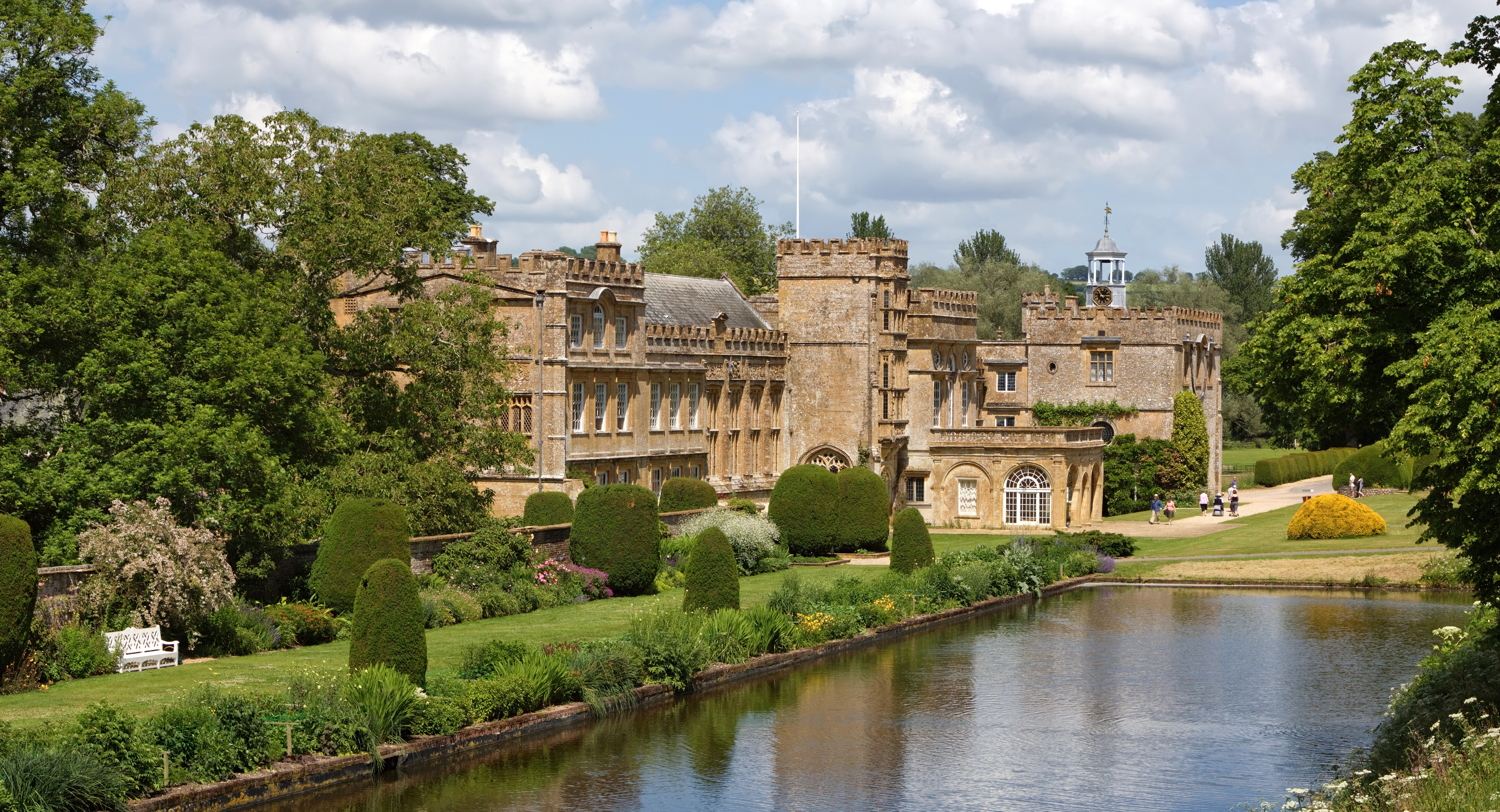 From the gardens of Forde Abbey, a view of the pond and house. Image is a 4 segment stitch.